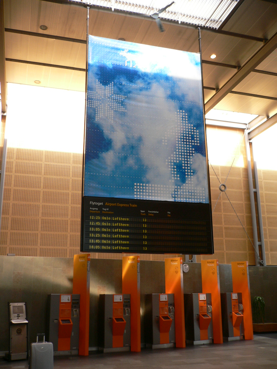 Ticket machines for the Airport Express Train at Oslo Central Station